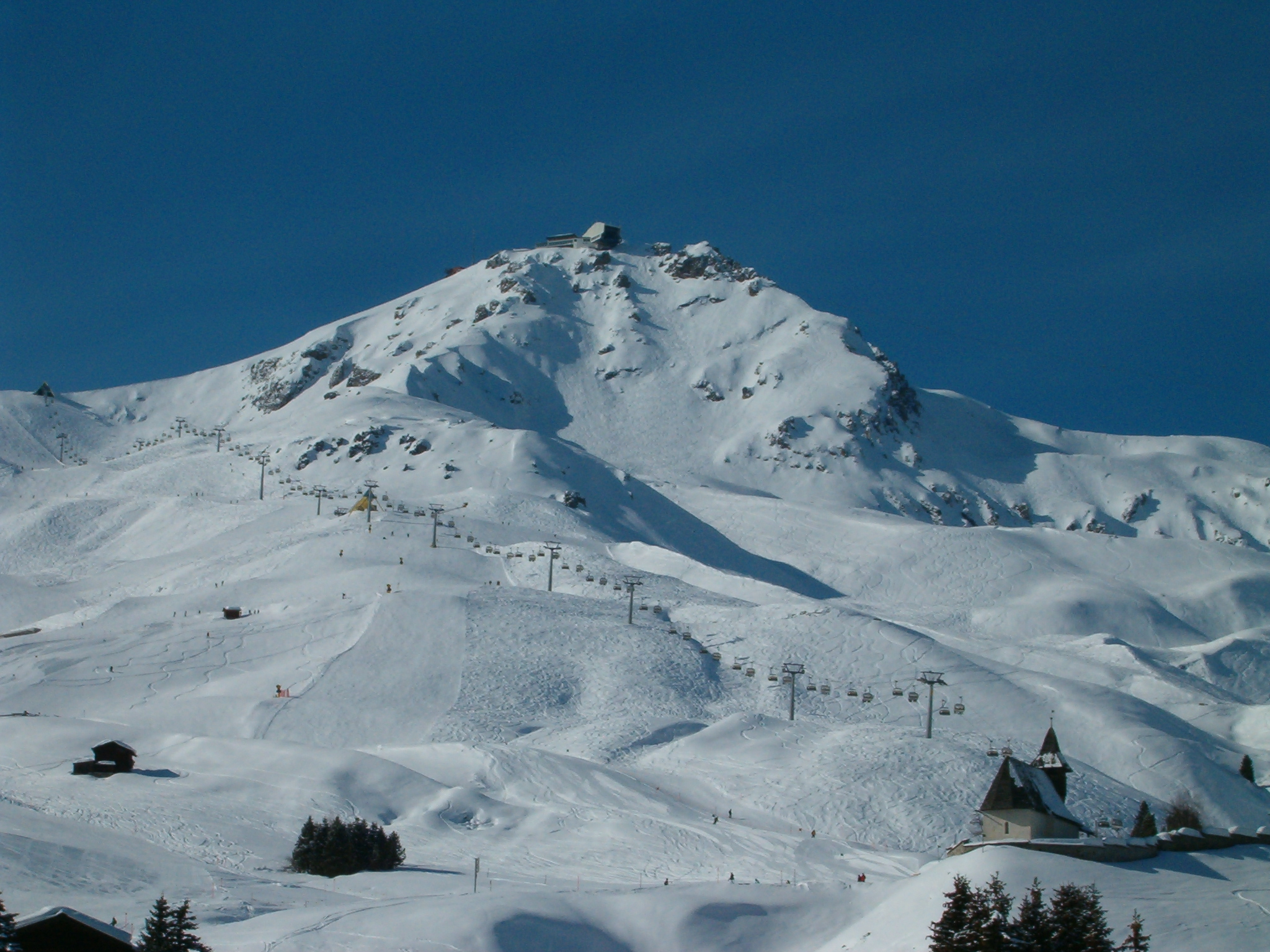 Weisshorn/Carmenna ski area at Arosa/Switzerland